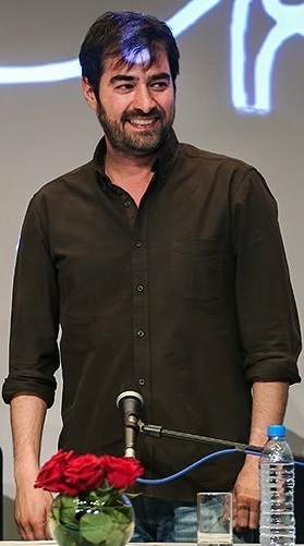 Shahab Hosseini in The Salesman's press conference in Tehran